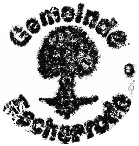 Former seal of Eschenrode, Germany